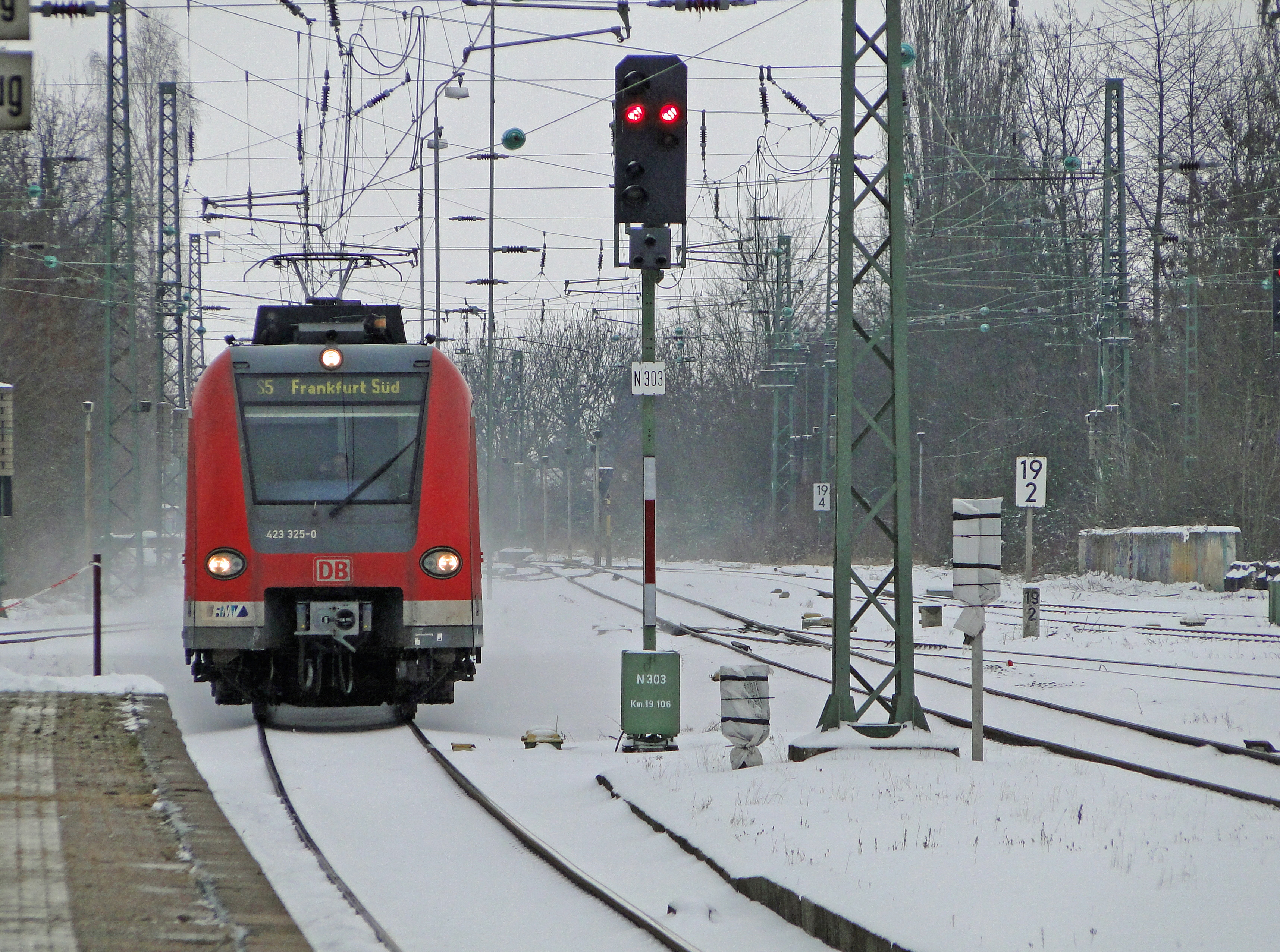 Class 423, S5 at Bad Homburg station.